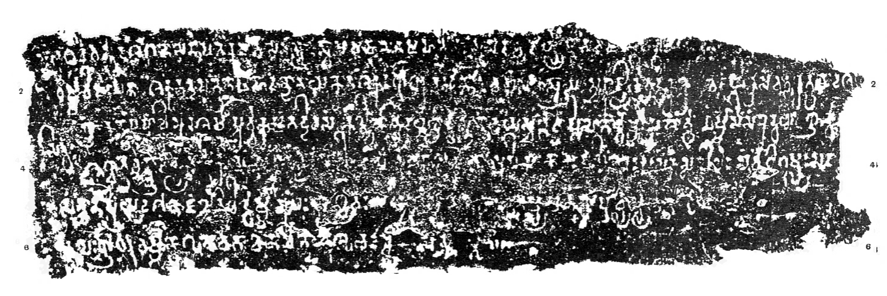 Sanchi inscription of Svami Jivadaman Year 13